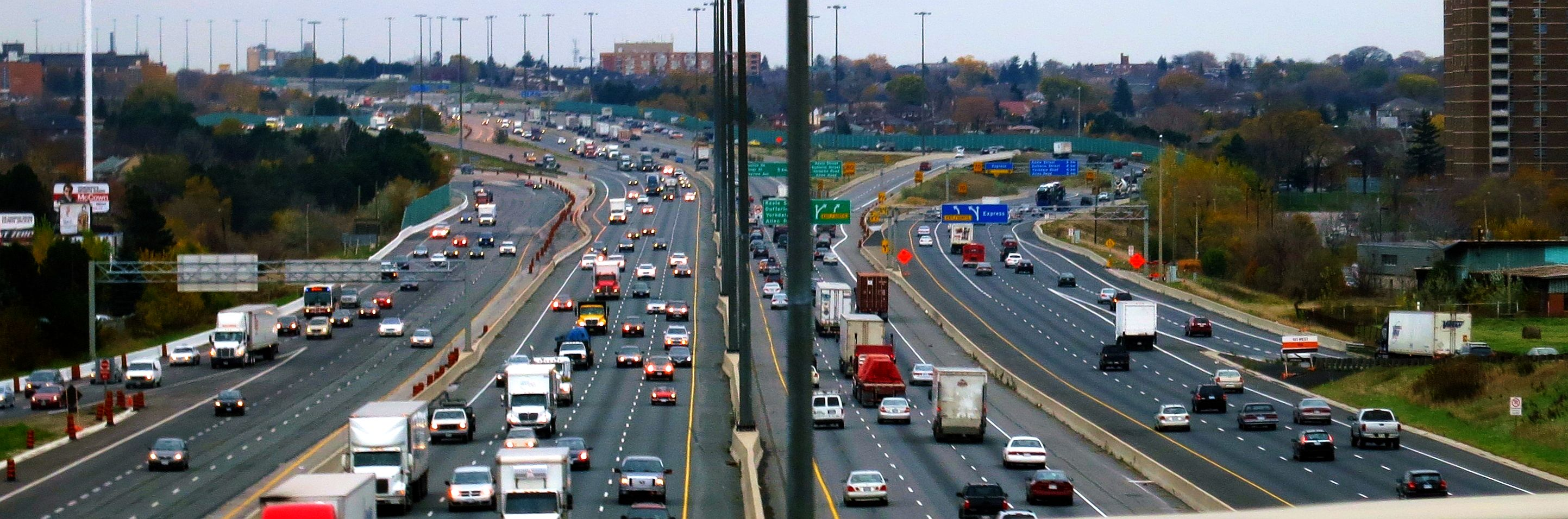 Highway 401 Basketweave from Highway 400